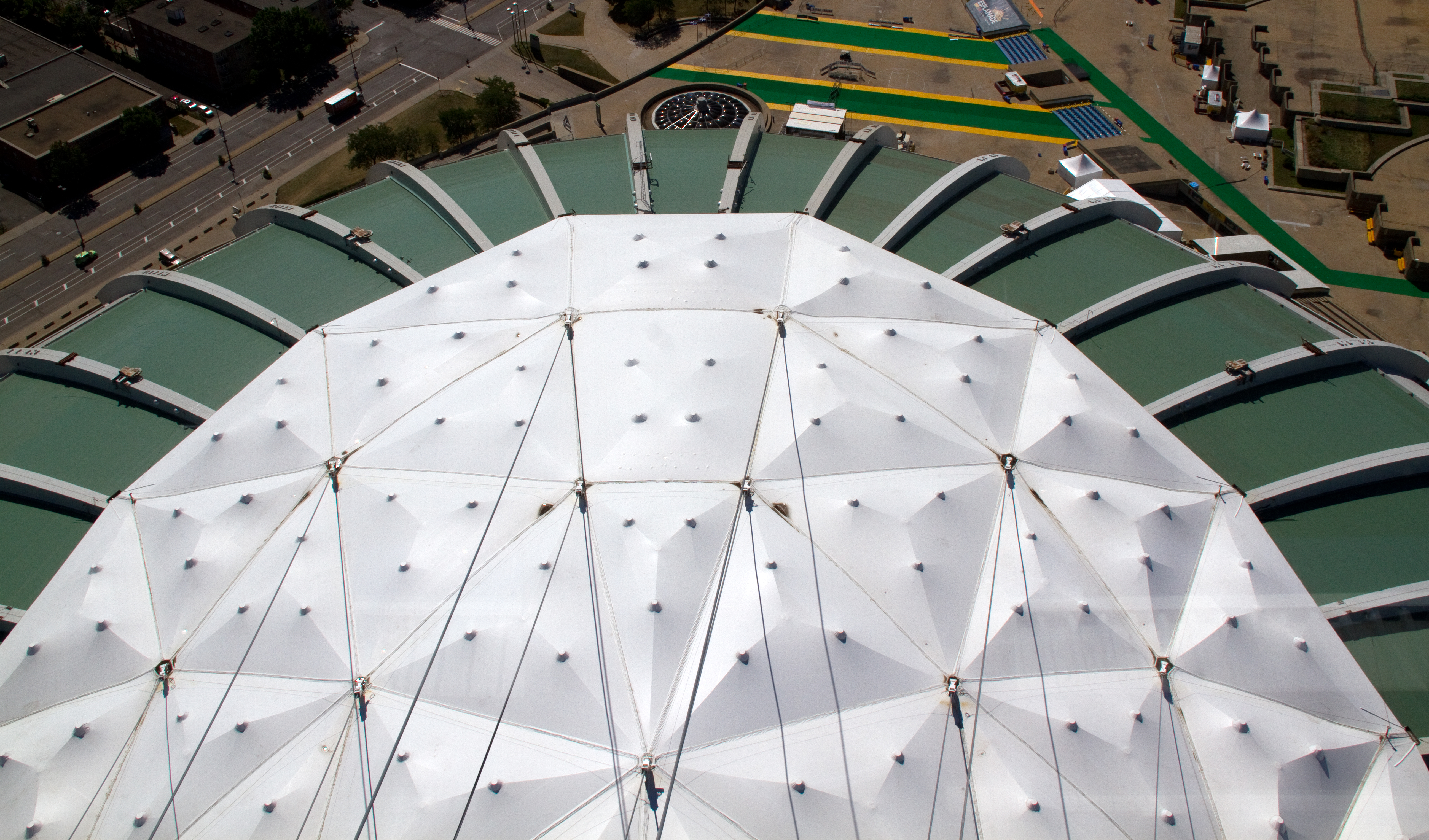 Montreal Olympic Park 10